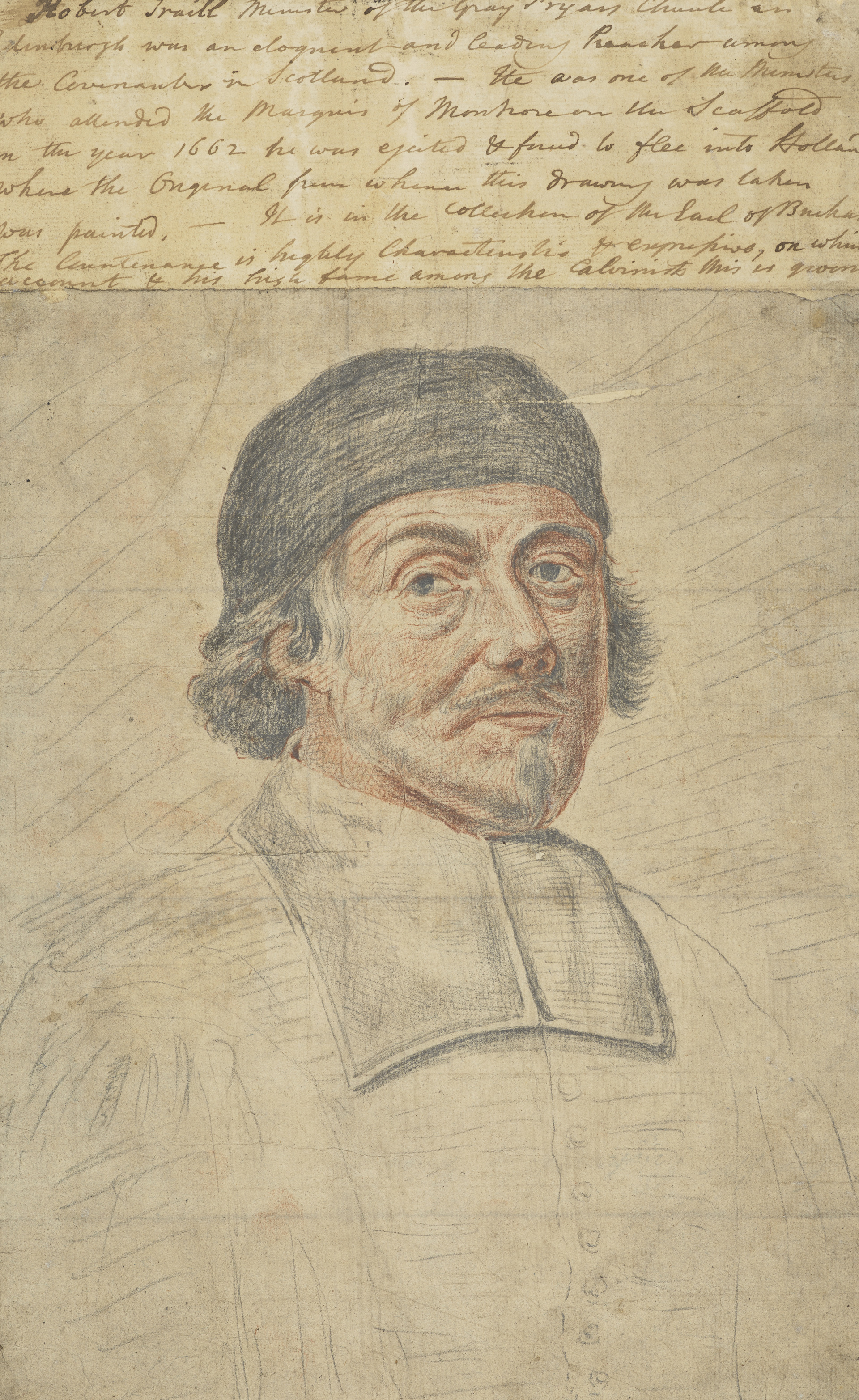 portrait of Robert Trail minister and covenanter